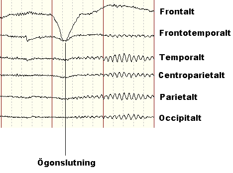 Normal EEG of a waking adult with alpha rhythm and blocking.